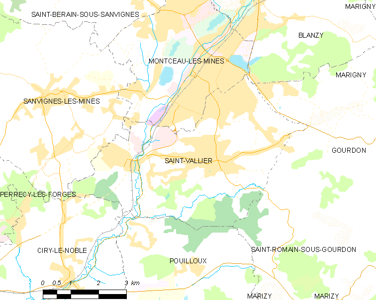 Map of French municipality